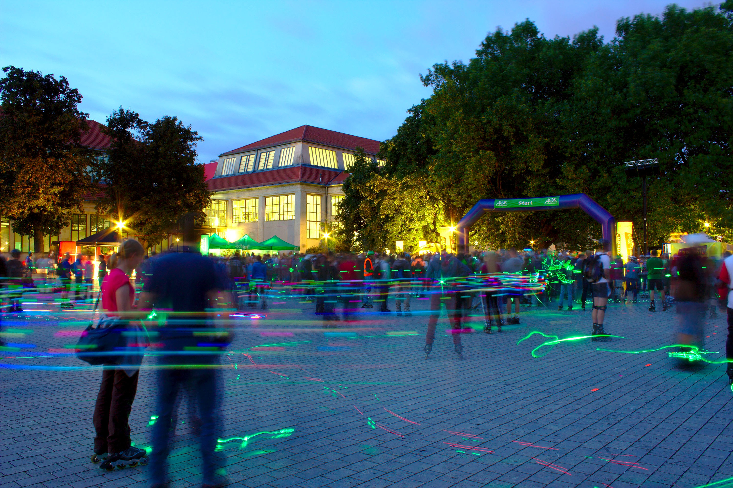 Munich Bladenight before the start, long exposure.